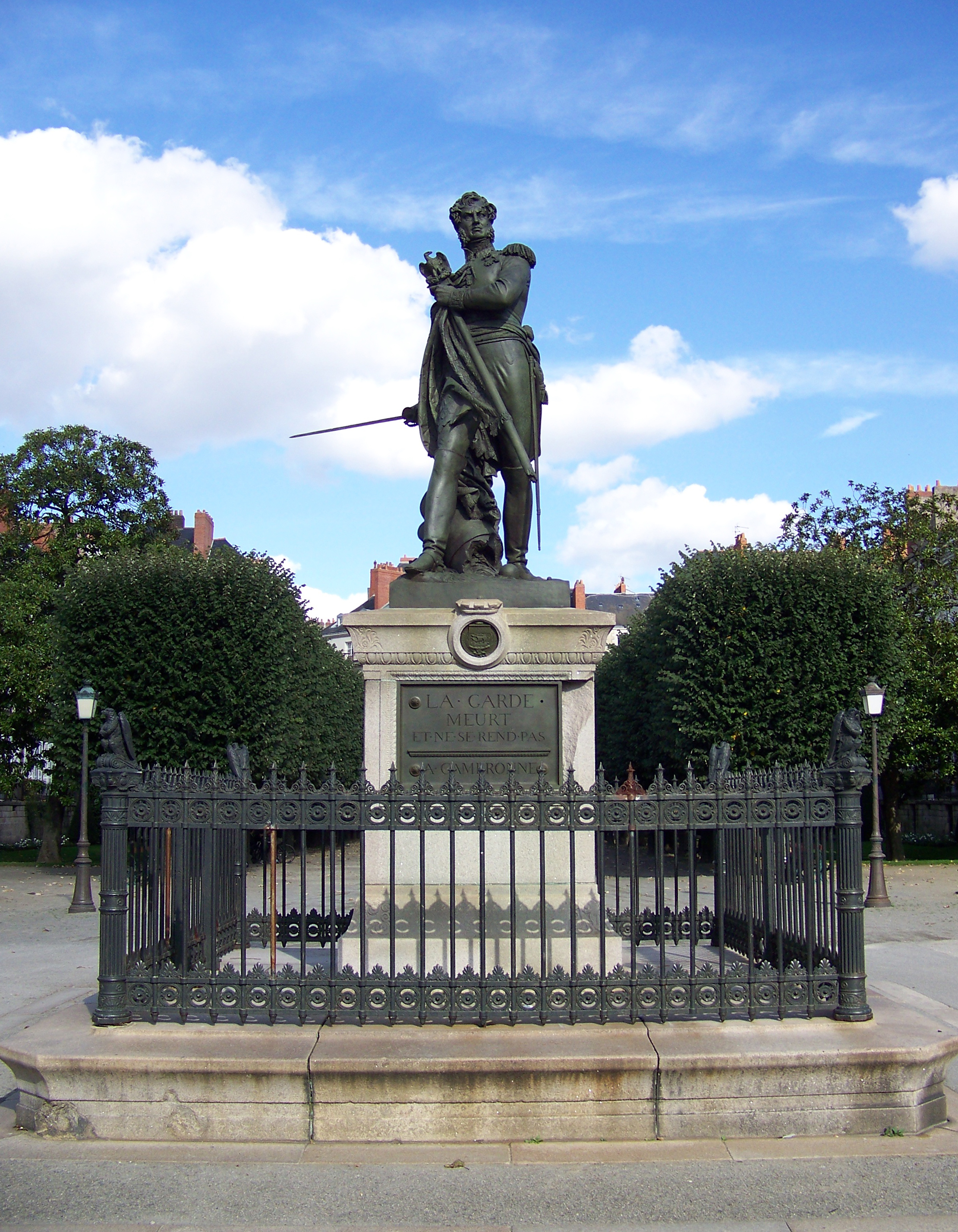 Statue of the general Pierre Cambronne in Nantes, France. On the front of the pedestal, the legendary phrase he is supposed to have answered to general Colville at Waterloo: La Garde meurt et ne se rend pas ! ("The Guard dies and does not surrender"). On the back: Nantes et l'armée, inauguré le 23 juillet 1848 ("Nantes and the Army, inaugurated on july 23rd 1848").